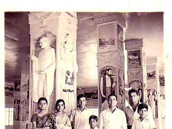 Photo taken by me in 1957 using B & W film camera. Photo shows Geetha Mandir built by an industrialist.